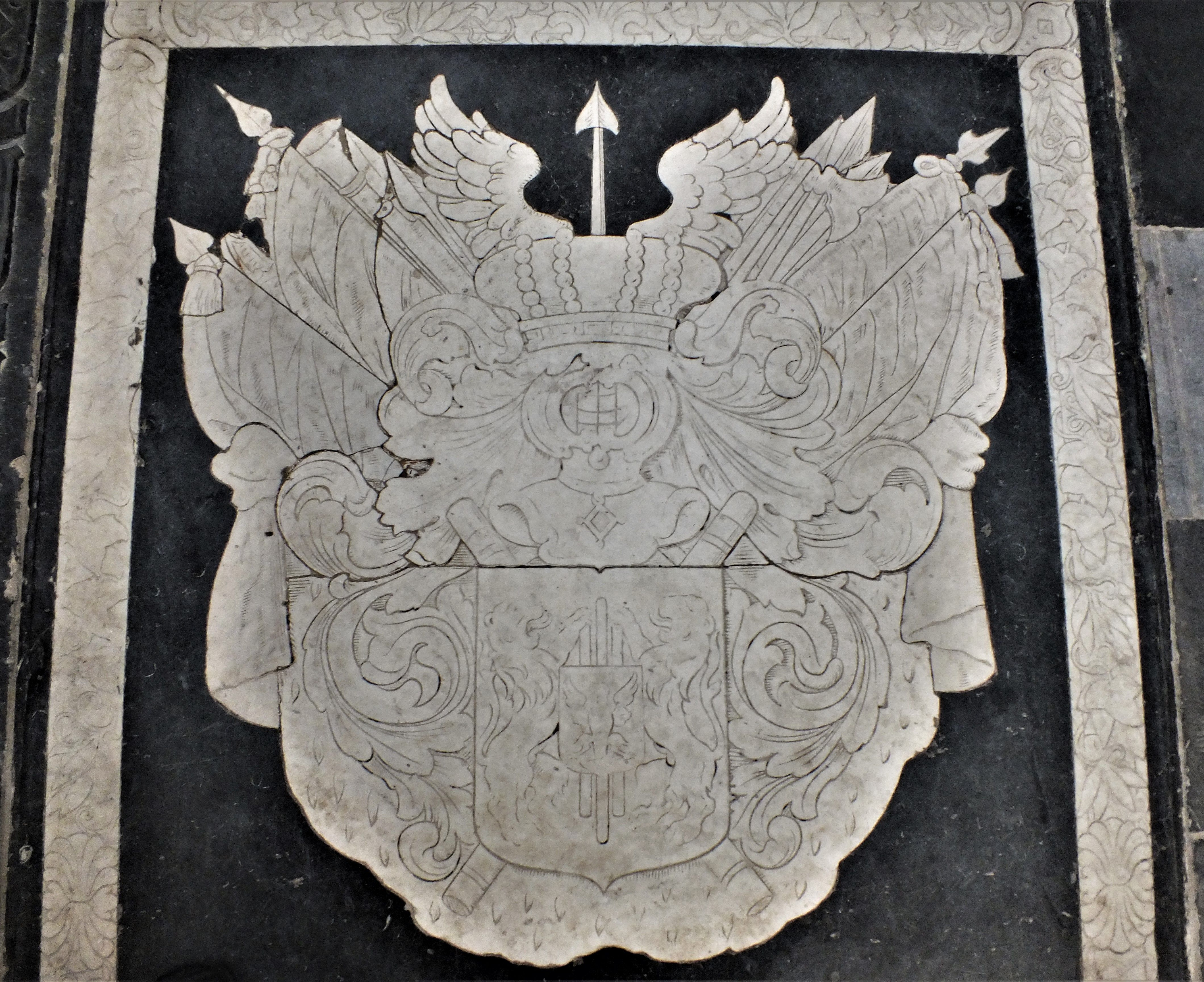 Tombstone of Theobald Metzger von Weibnom, died 23th february 1691, located in Grote Kerk Church, Breda, Netherlands